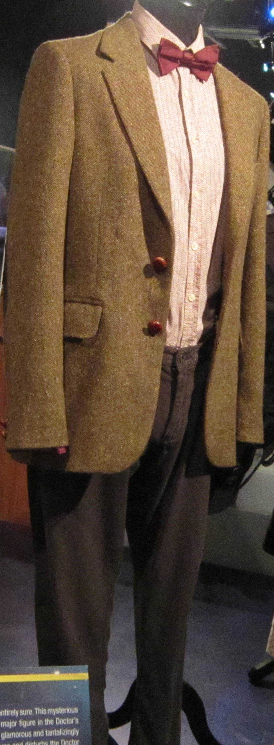 La Doctor Who Experience à Cardiff Doctor Who Experience